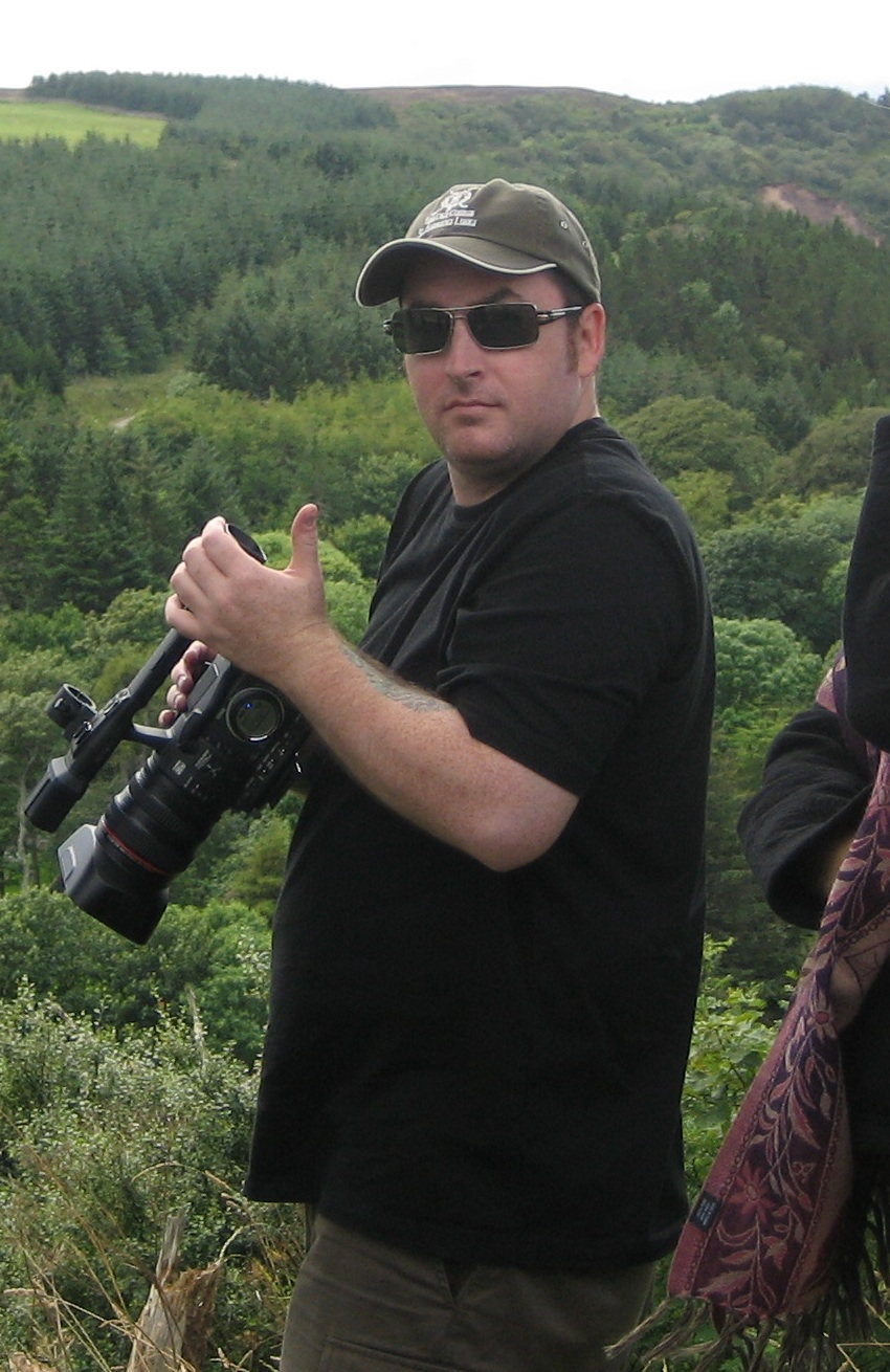 filmmaking